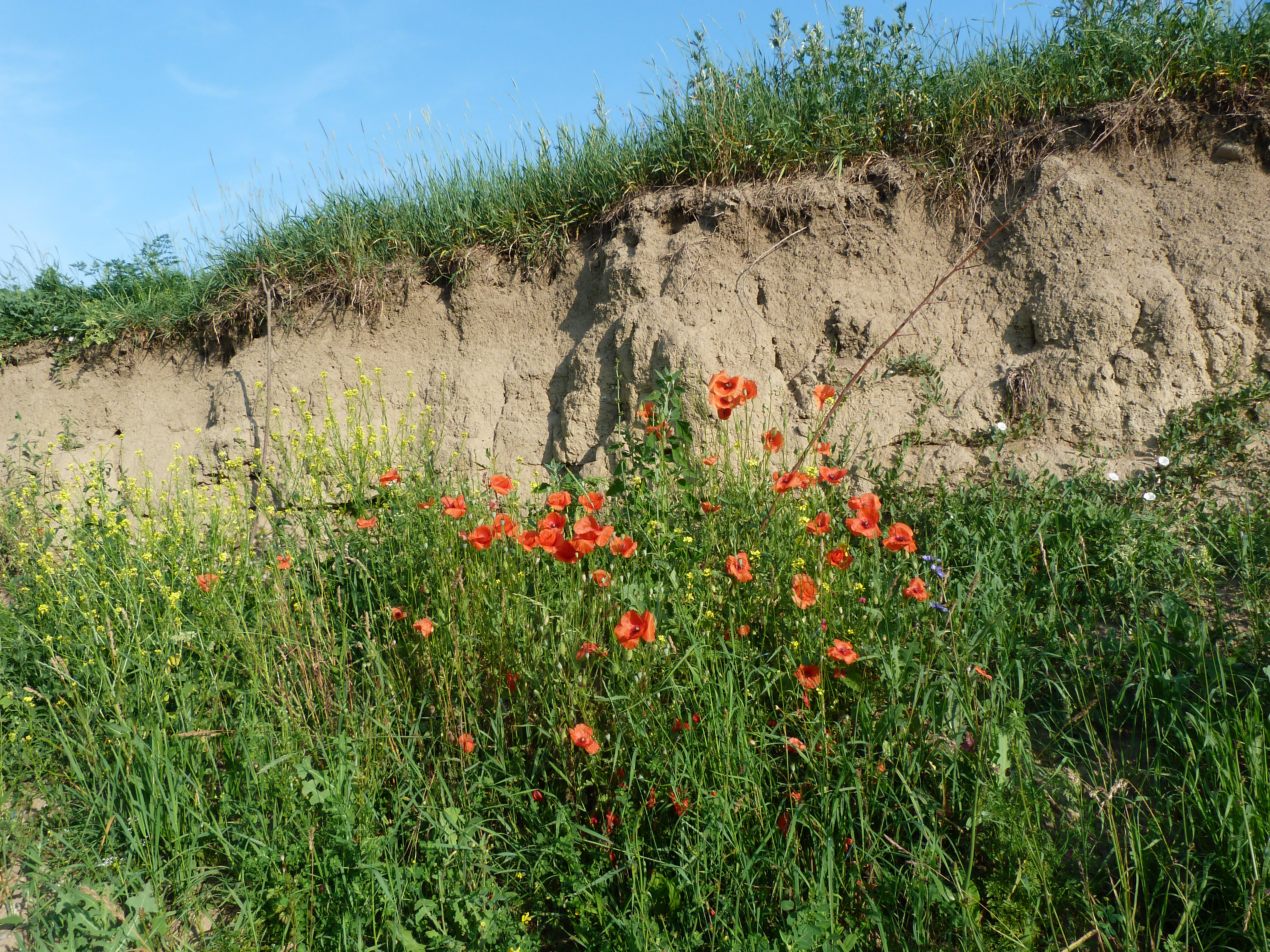 Live on the 20th of June, 2013. Székelykeresztúr. Küküllő river. At 6.18 I reached Küküllő street, where I came all the way down here. The rising Sun warmed the landscape. Trubled waters of the river were hurrying to the West. A felvételek 2013. Június 20 –án csütörtökön készültek Székelykeresztúron. Hajnalban, 6.18 –kor érkeztem a főuton a Küküllő utcához, ahol le lehet menni a Küküllőhöz. A jelenlegi Liedl áruház mögötti területen konyhakertek, kis házak, régi és új blokképületek. A Küküllőt galériaerdő kiséri. Túlsó partján legelők. A felkelő Nap fénye lassan melegítette át a tájat. Sárgarigók köszöntötték az új napot. ©© Published under Creative Commons in the Metapolisz DVD line. All of the photos and vids in the Metapolisz DVD line are under Creative Commons and can be used even for commercial – for profit – purposes. Recommended Citation Derzsi Elekes Andor: Metapolisz DVD line Forrás: Székely huszárok Time: mashine time + 1 hour